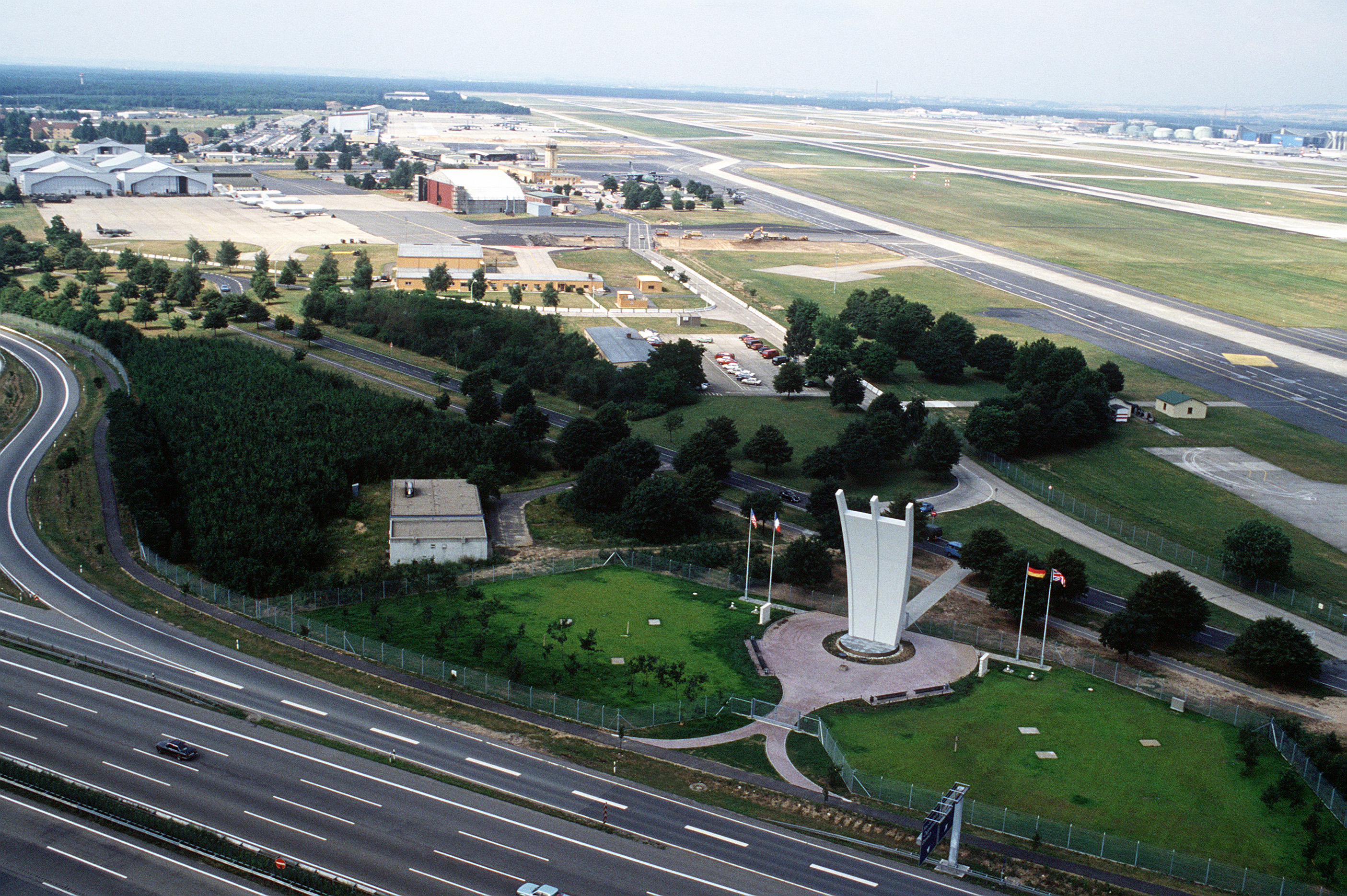 An aerial view of the Berlin Airlift Memorial at the Rhein-Main Air Base.